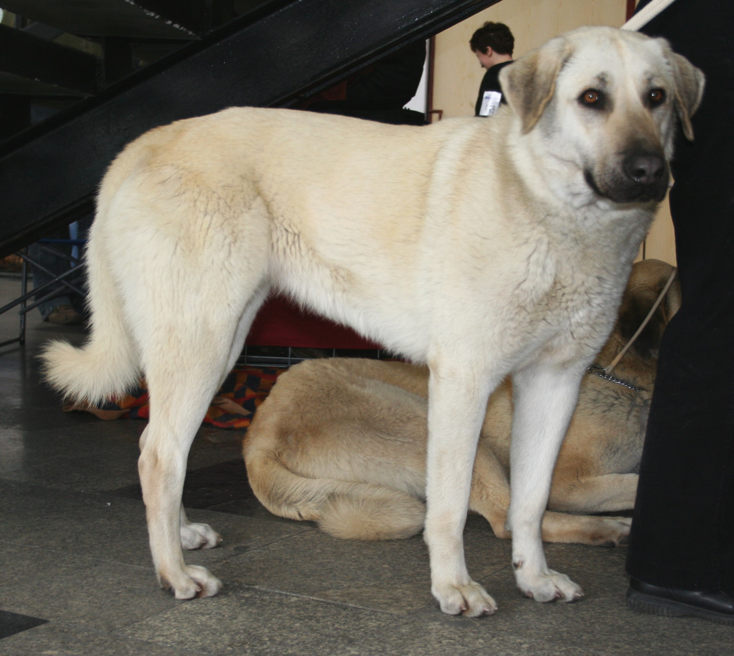 Anatolian Shepherd Dog during the international dogs show in Katowice, Poland